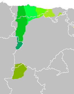 Grupo Astur-leonés